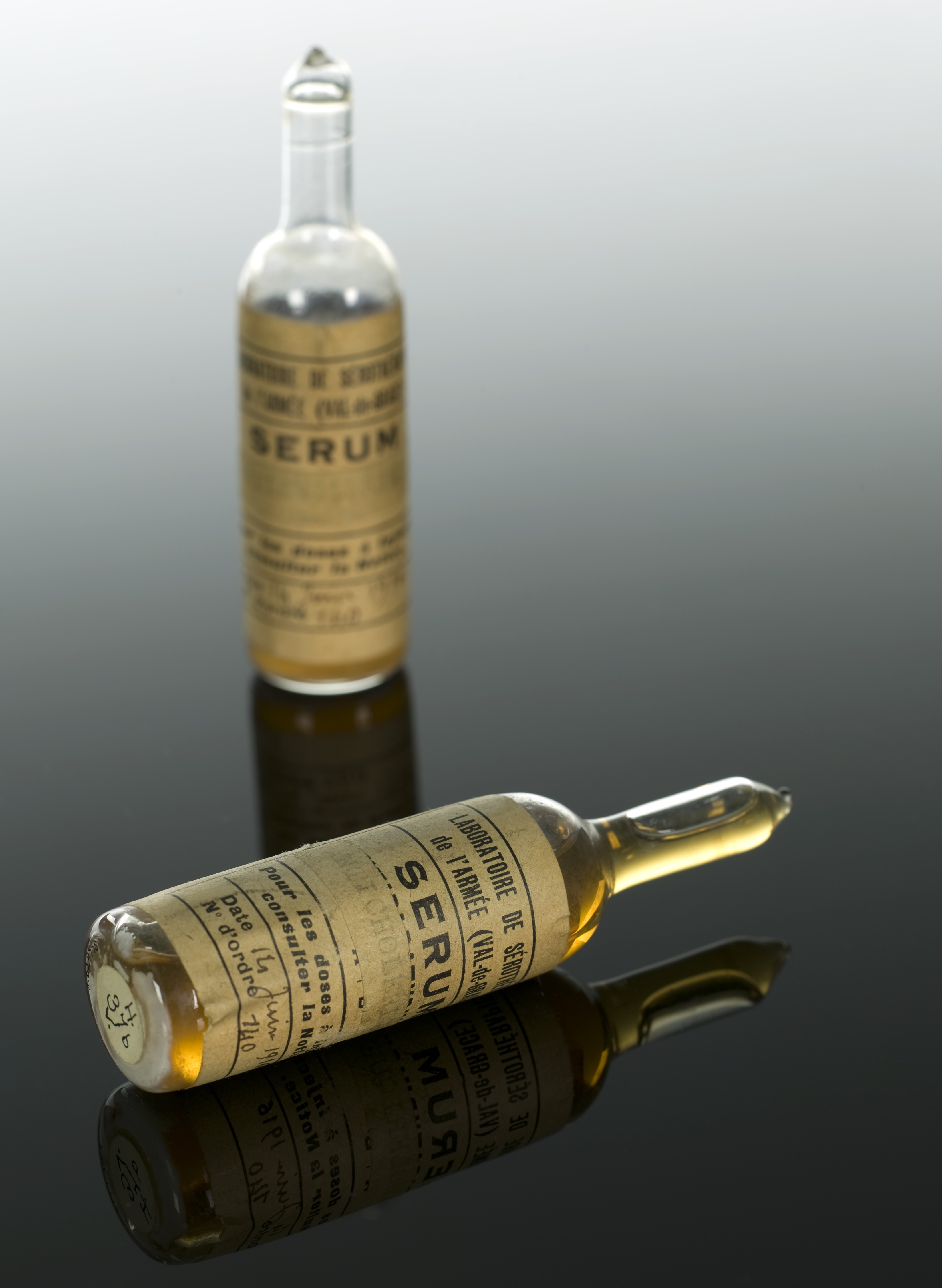 The serum contains antibodies from an animal infected with cholera and was used to immunise people against the disease. Cholera is a water-borne disease affecting the small intestine and causing diarrhoea and vomiting. The name of the Laboratoire de Sérothérapie de l'Armée, which made this serum, translates as the “Army Laboratory for Serotherapy”. Serotherapy is the treatment of infectious disease by injection of immune serum. This was made for the French Army during the First World War, and produced in 1916. It was considered important to immunise soldiers against cholera as it was important to keep a fighting force fit and healthy. Prevention of disease aimed to ensure that soldiers were at peak physical condition to fight. maker: Laboratoire de Sérothérapie de l'Armée Place made: Paris, Ville de Paris, Île-de-France, France Wellcome Images Keywords: ampoule; immunisation; immune serum; antibody; Cholera